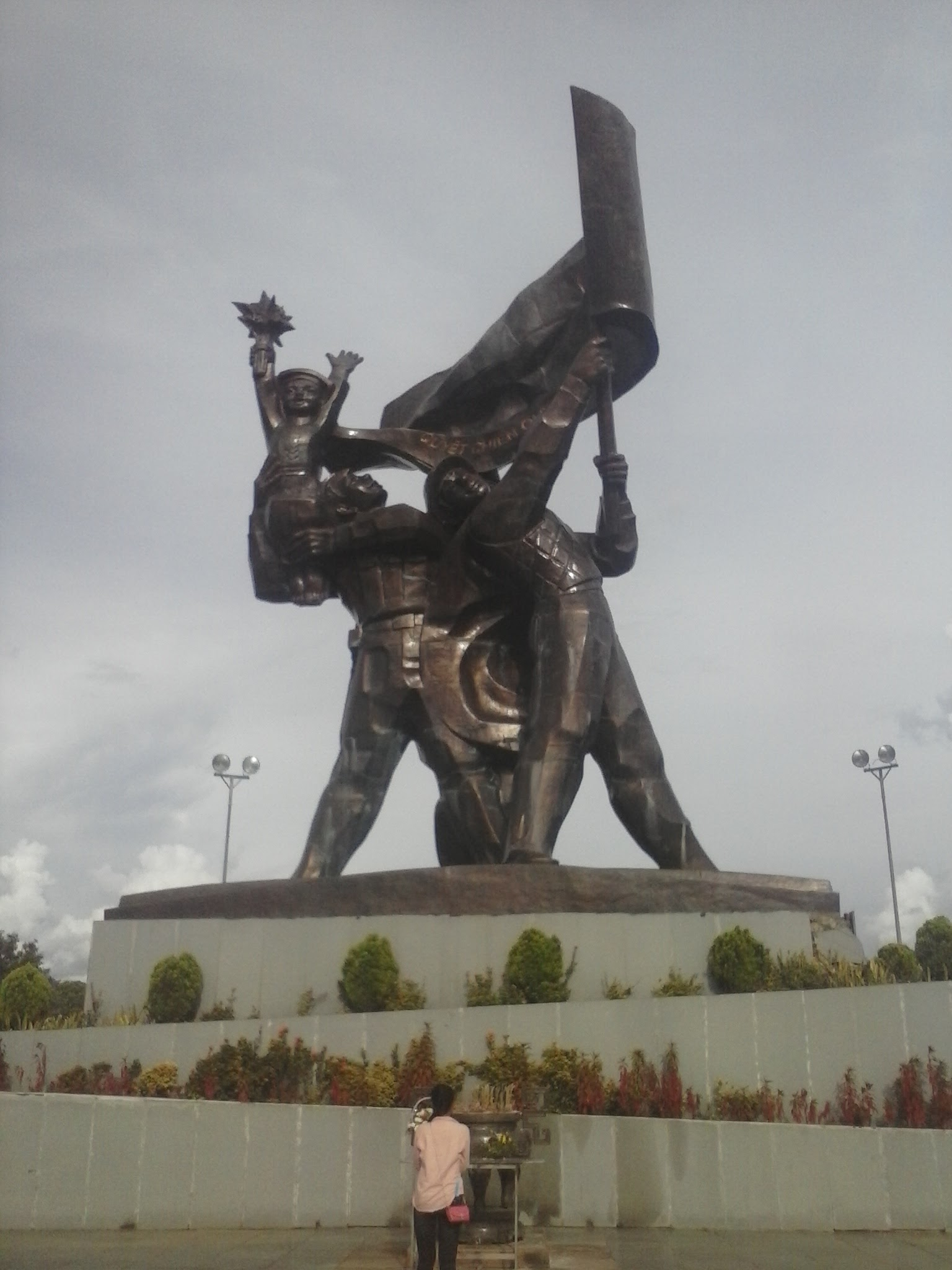 Front view of The Victory Monument of Dien Bien Phu, Dien Bien, Vietnam